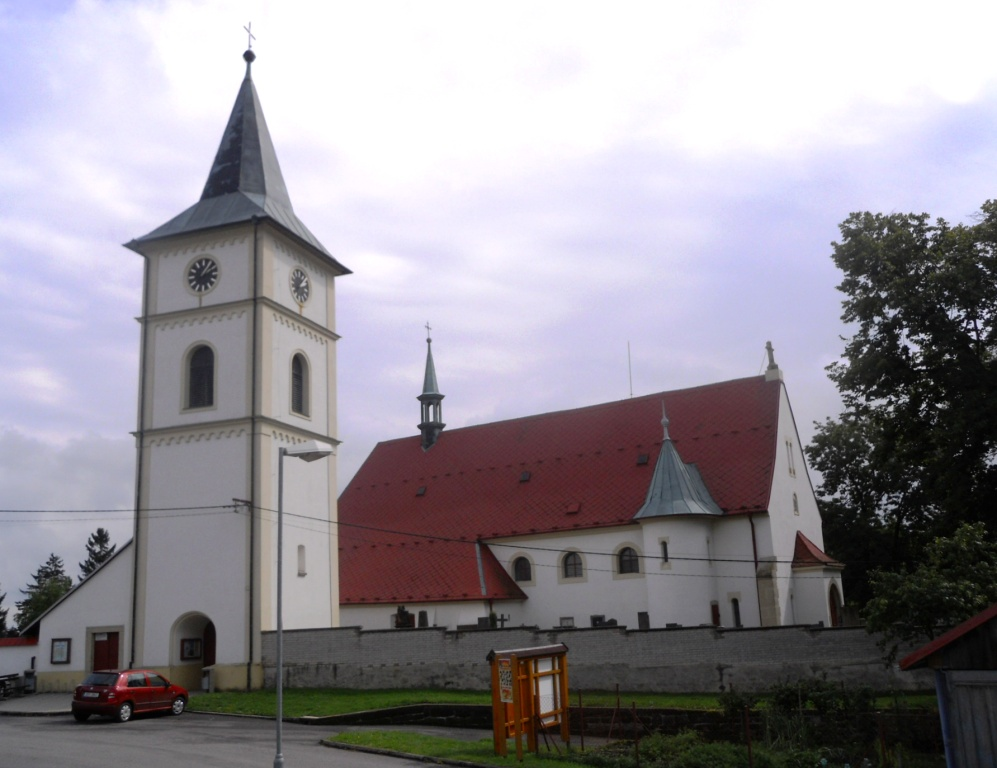 Mladočov, St Batholomew from NW